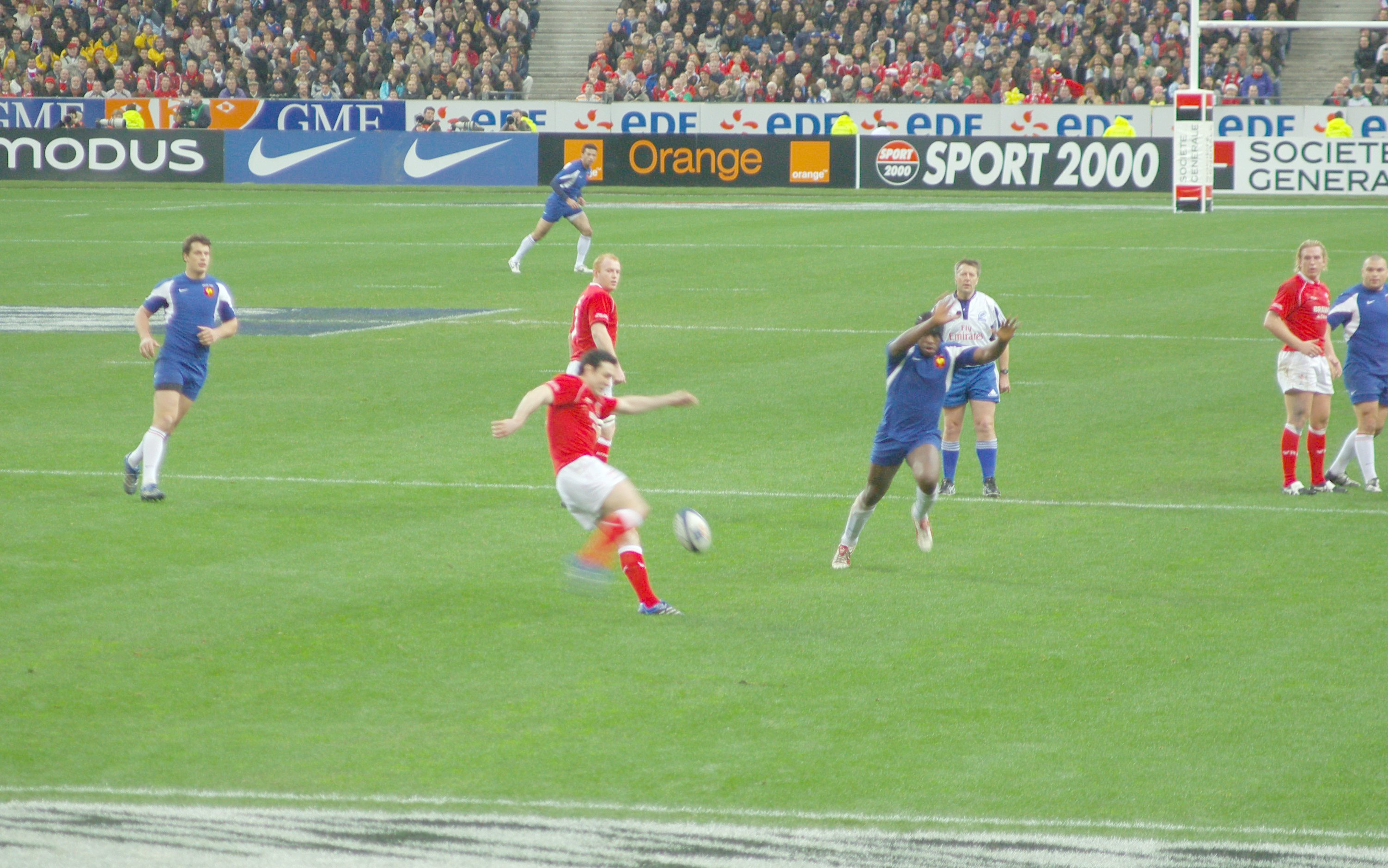 Pictures from the rugby game France vs Wales for 6 Nations 2007 which took place in Stade de France, Paris, 24/02/2007.